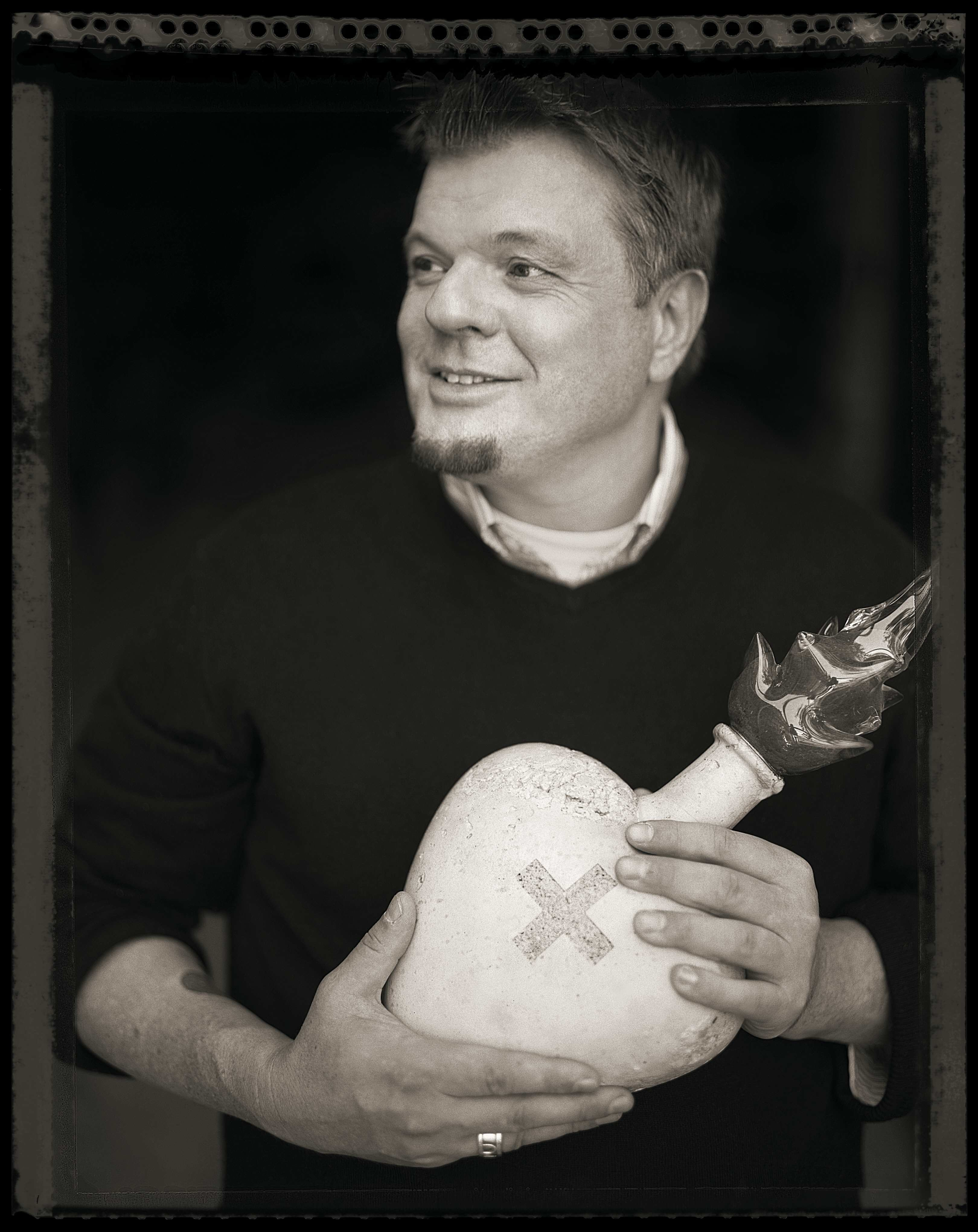 Portrait of artist Tim Tate by Matthew Gerard